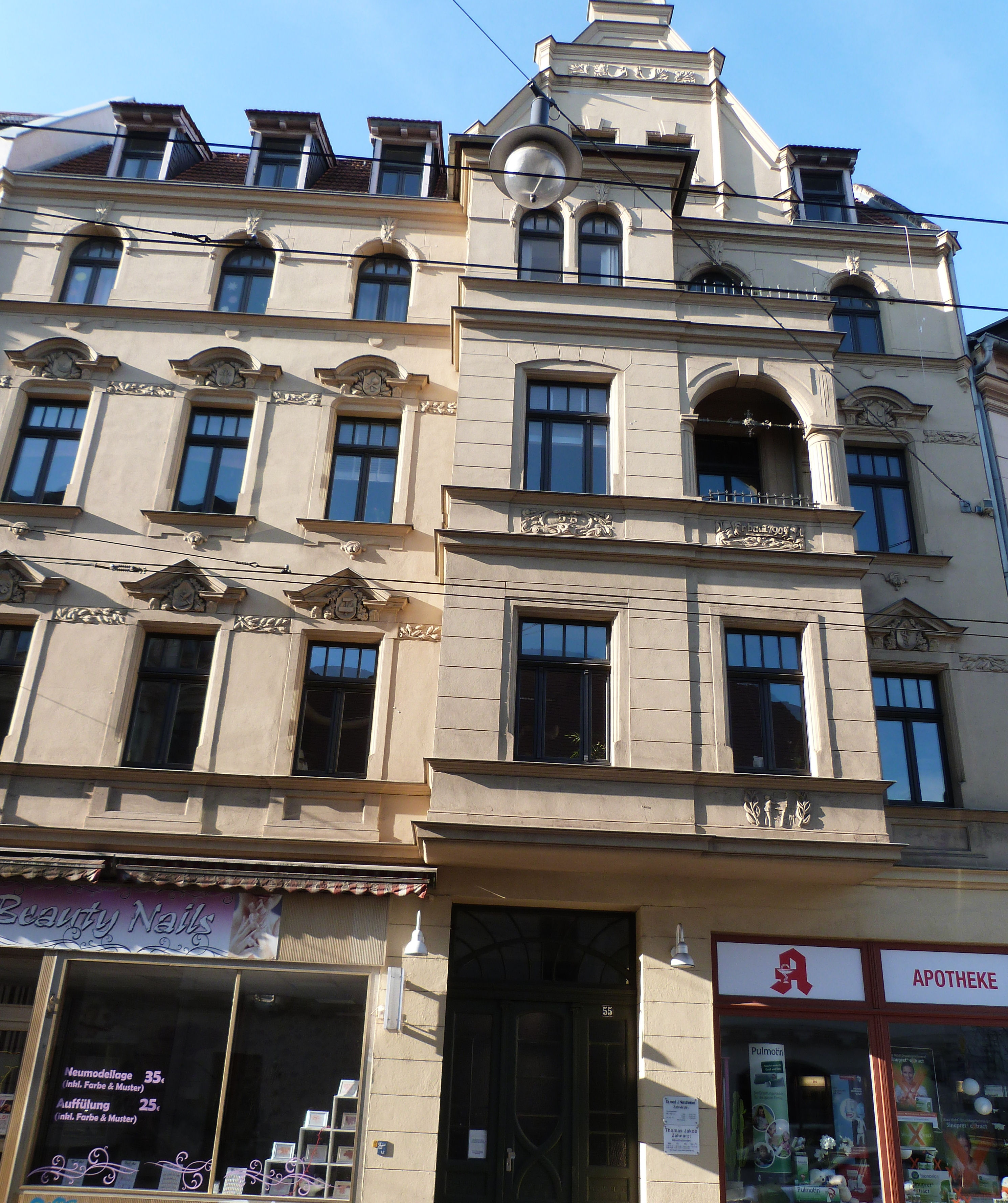 House No. 55 Steinweg in Halle (Saale)